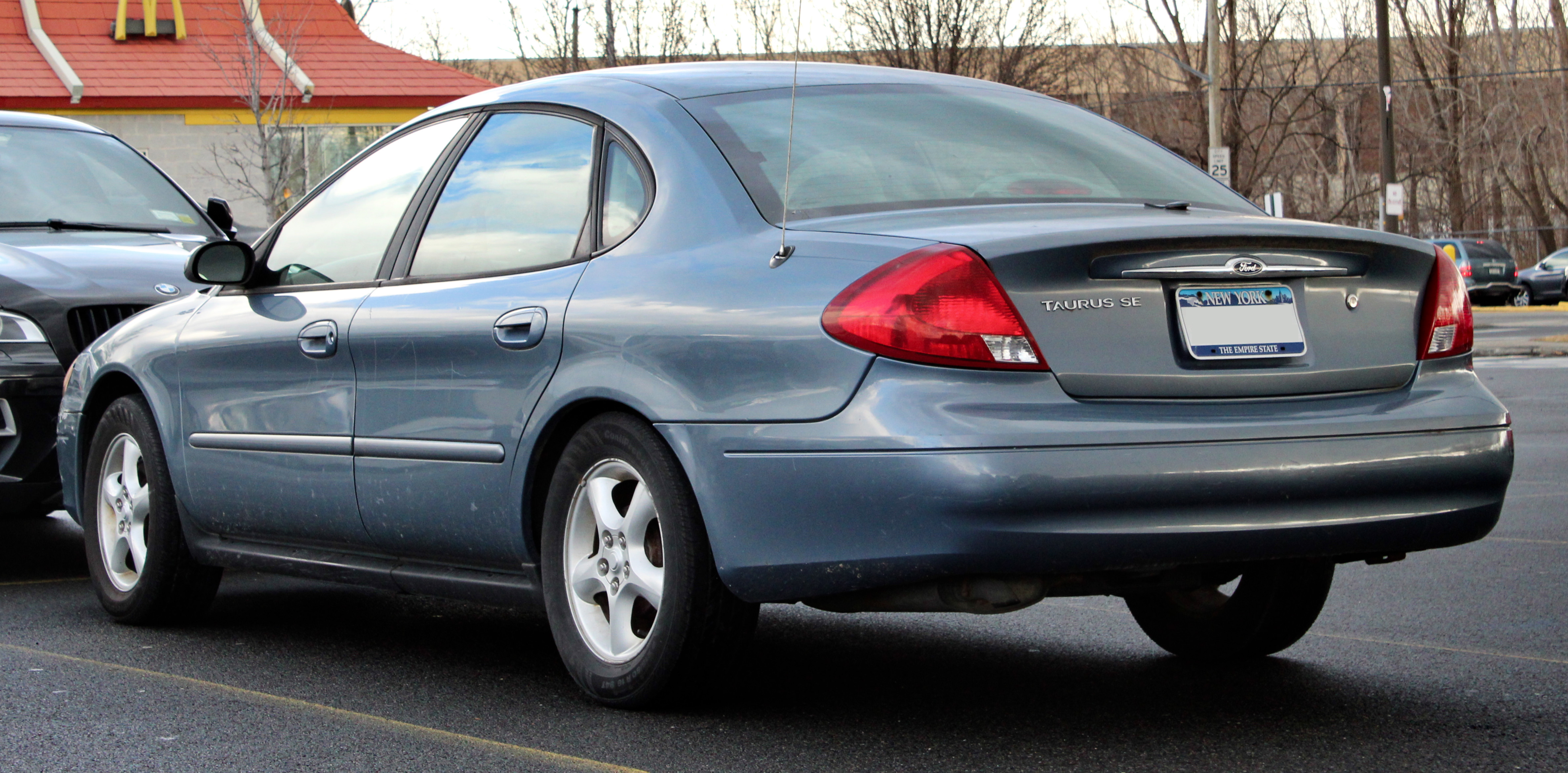 A 2001 Ford Taurus SE photographed in College Point, Queens, New York, USA